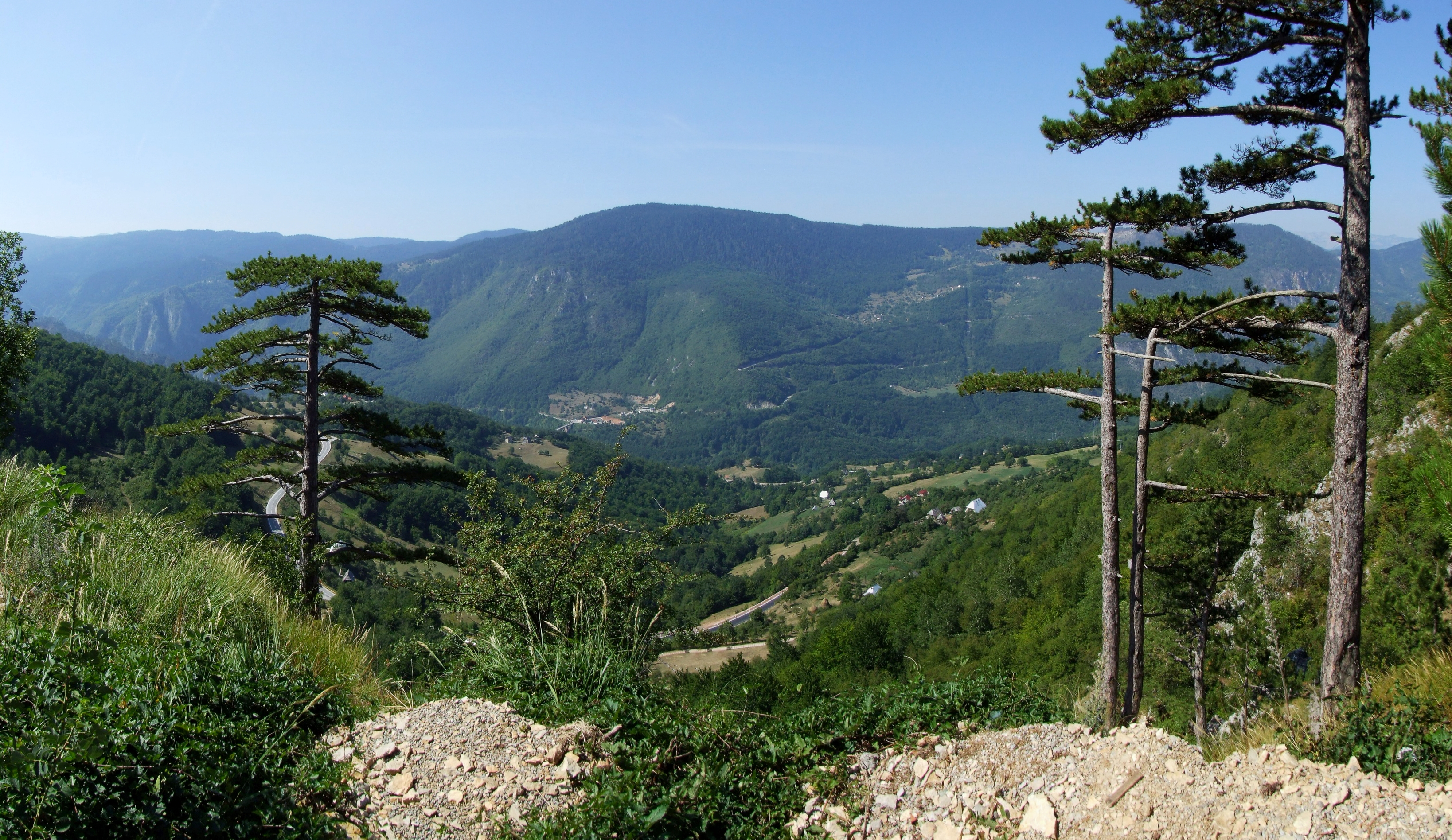 Durmitor mountains in Montenegro